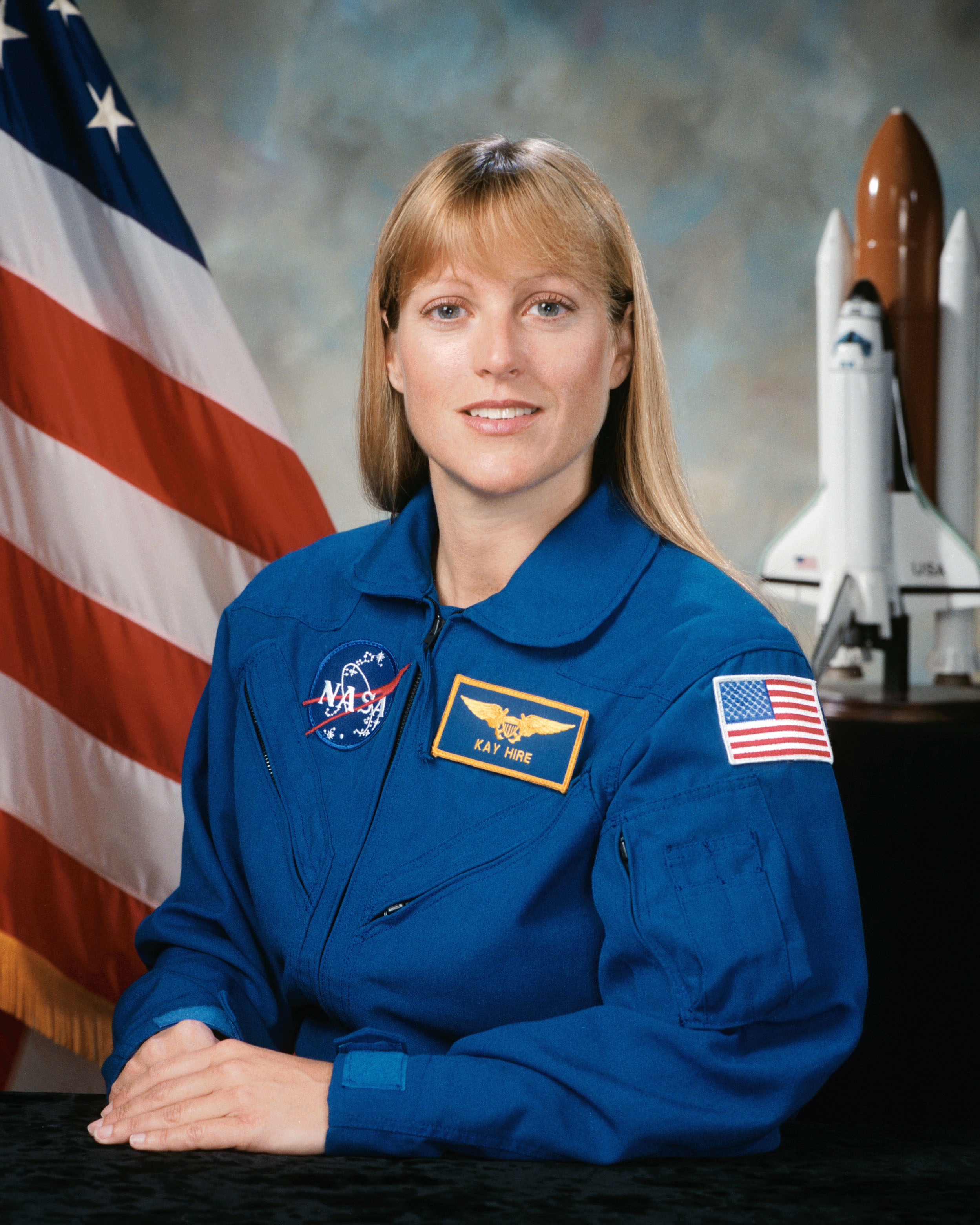 Astronaut Kathryn P. (Kay) Hire, mission specialist